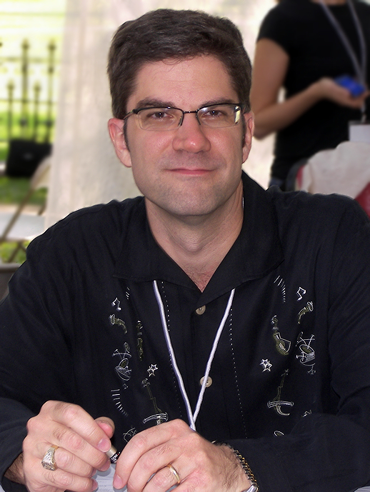 Jeff Abbott at the 2007 Texas Book Festival, Austin, Texas, United States.